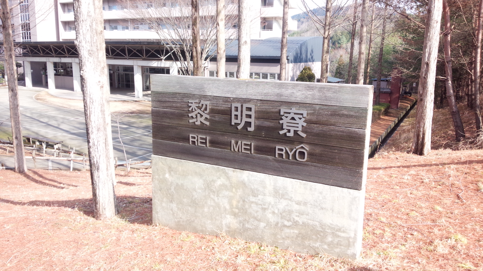 Sign of REI-MEI-RYŌ (Dormitory of The High School and Junior High School of University of Hyogo)